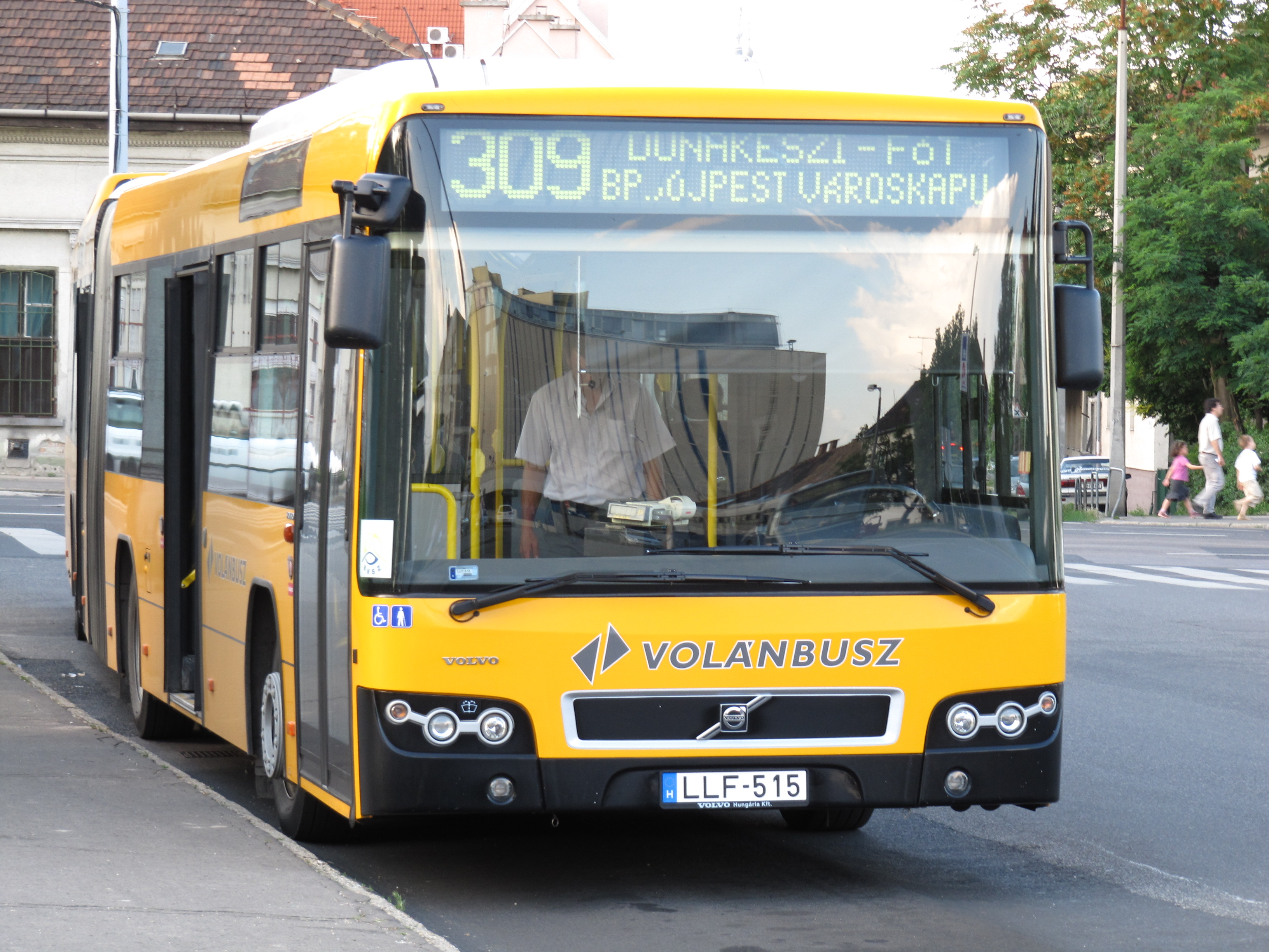 A Volánbusz to Fót, waiting outside Újpest-Városkapu Budapest Metro station.